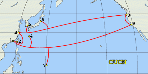 Route of the China-US-Cable Network (CUCN) Submarine communications cable. For more information on the numbered landing points, see main article.